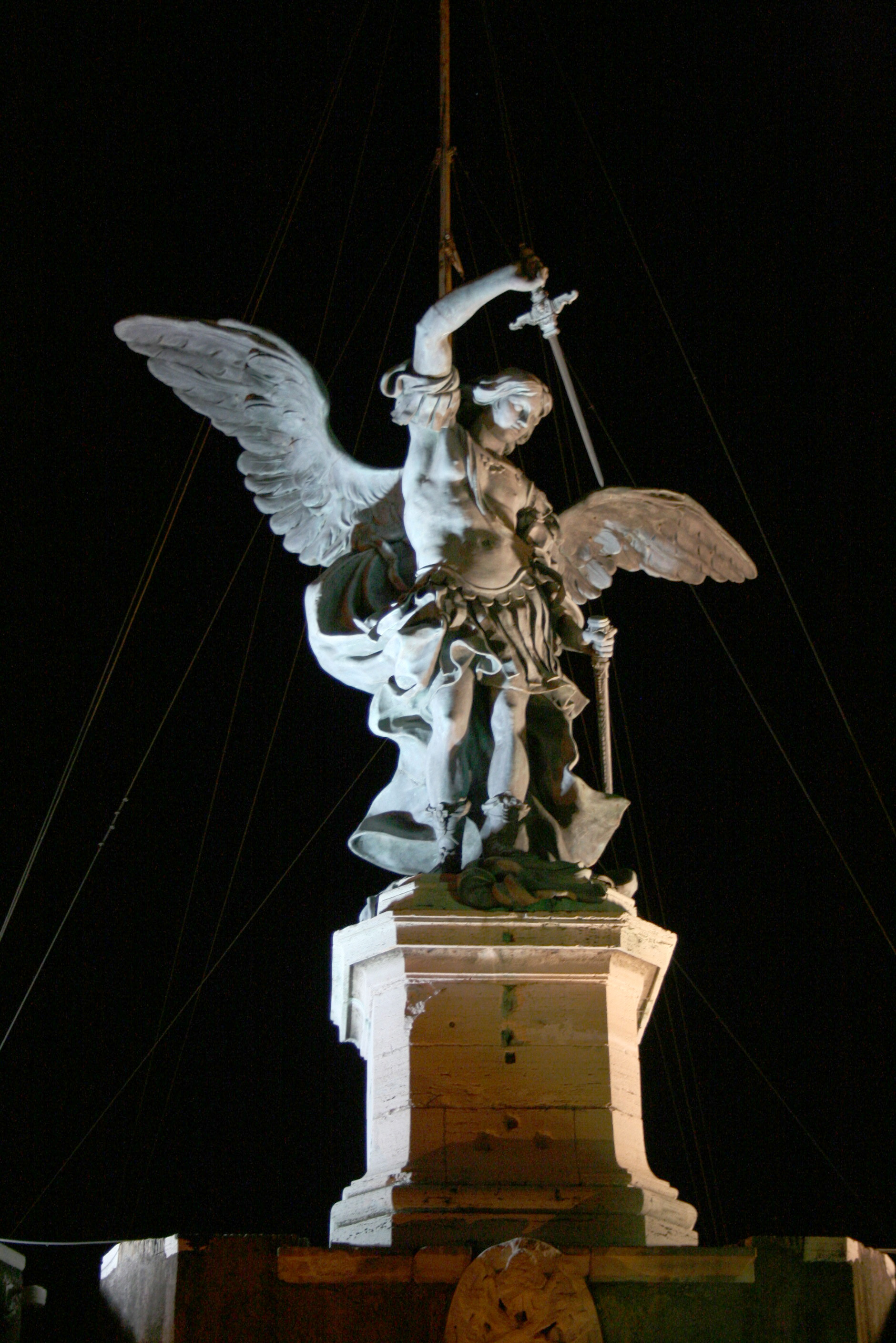 The bronze statue of Archangel Michael, standing on top of the castel Sant'Angelo, Rome, modelled in 1748 by Peter Anton von Verschaffelt (1710–1793).